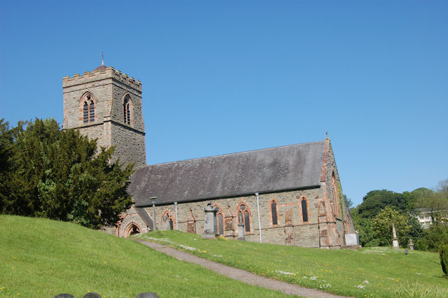 St Mary's Church Llanfair Caereinion